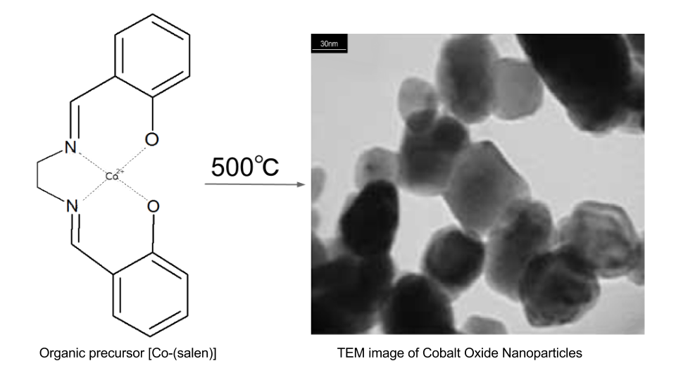 TEM image of cobalt oxide nanoparticle produced by heating organometallic precursor [Co-(salen)] under high temperature.